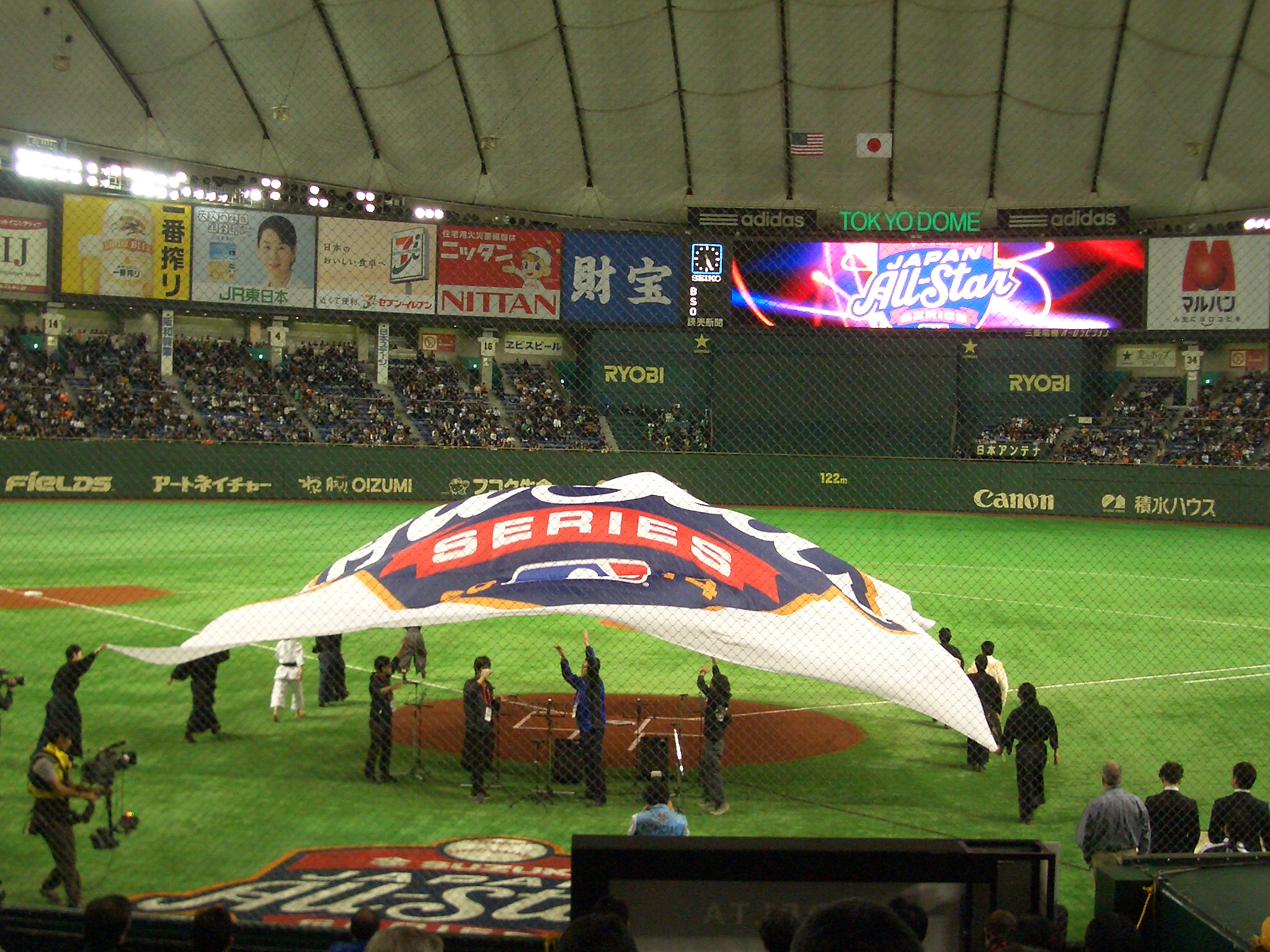 2014 MLB Japan All-Star Series Game #2 at Tokyo Dome in Tokyo, Japan, on November 14, 2014.